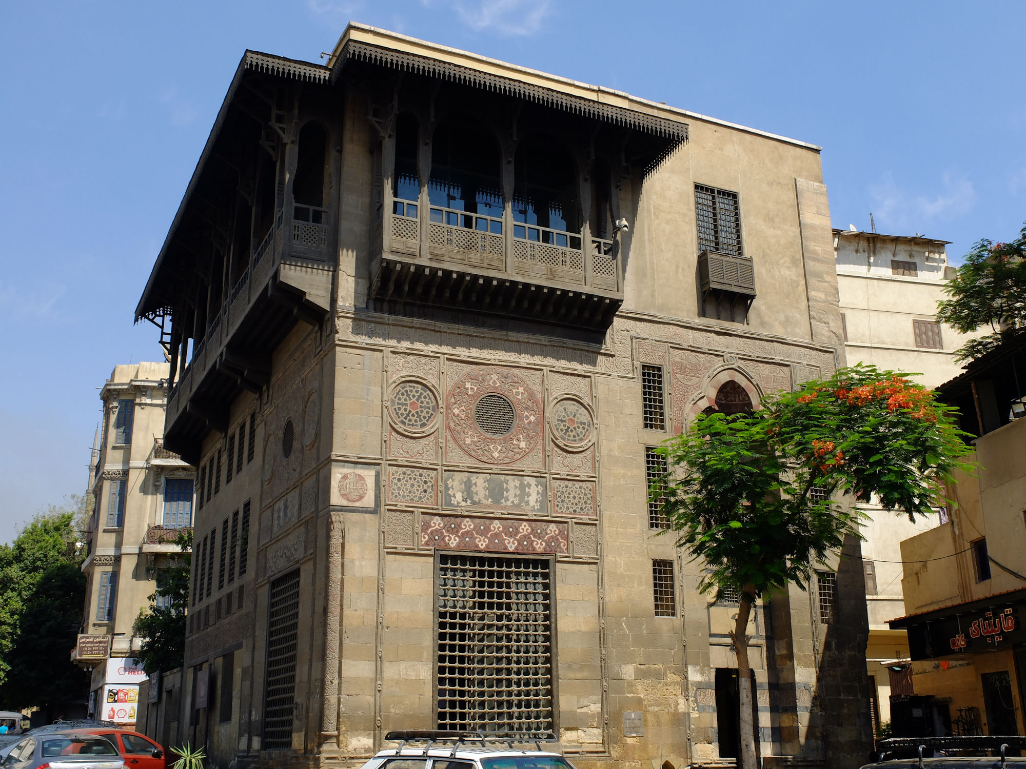 Sabil-kuttab of Sultan Qaytbay (1479), street view.